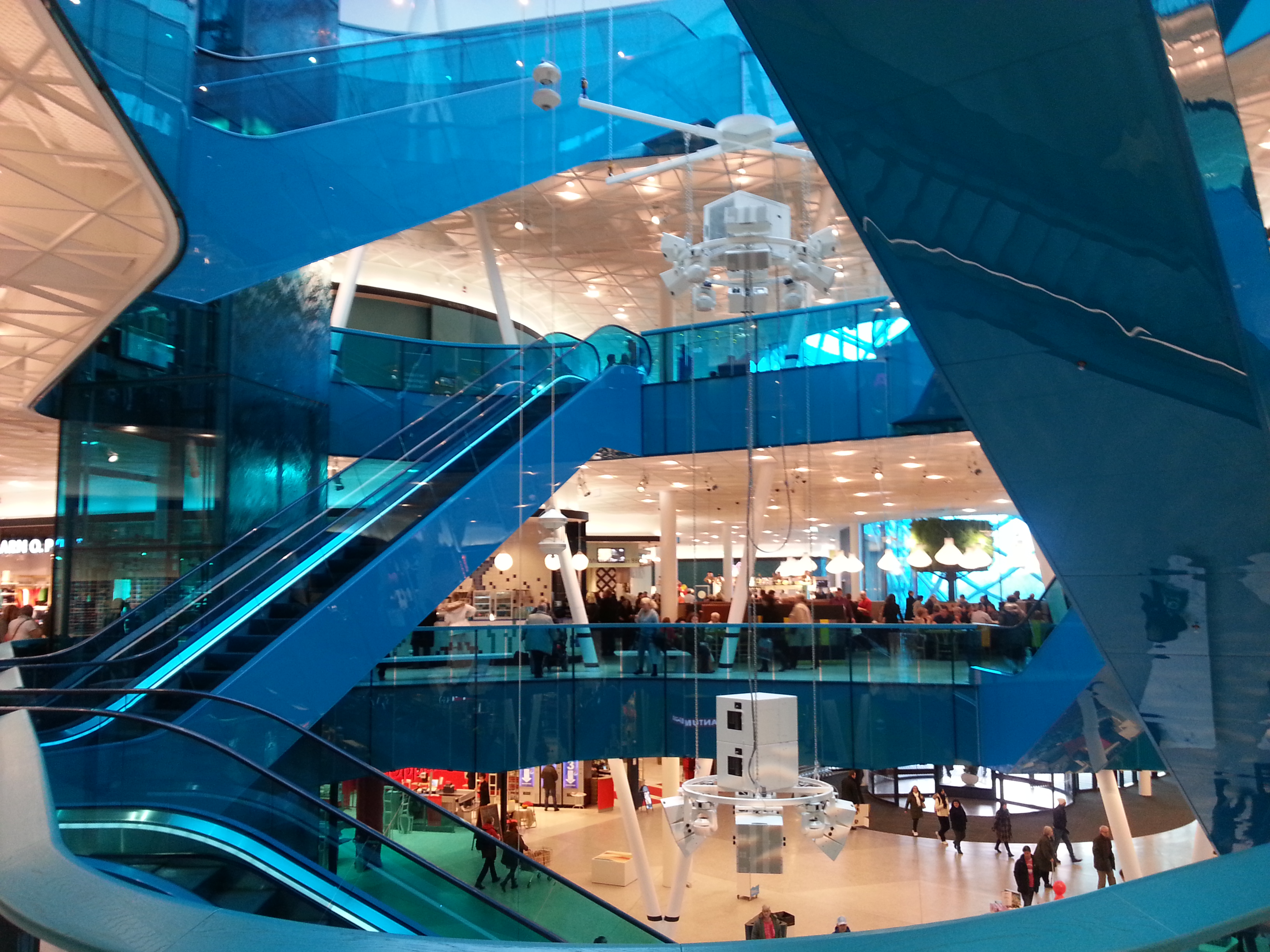 The blue square "Havstorget" in Emporia shopping mall, Malmö.